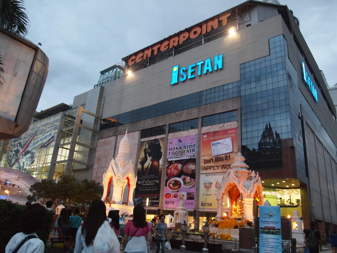 Isetan department store at CentralWorld in Bangkok, Thailand